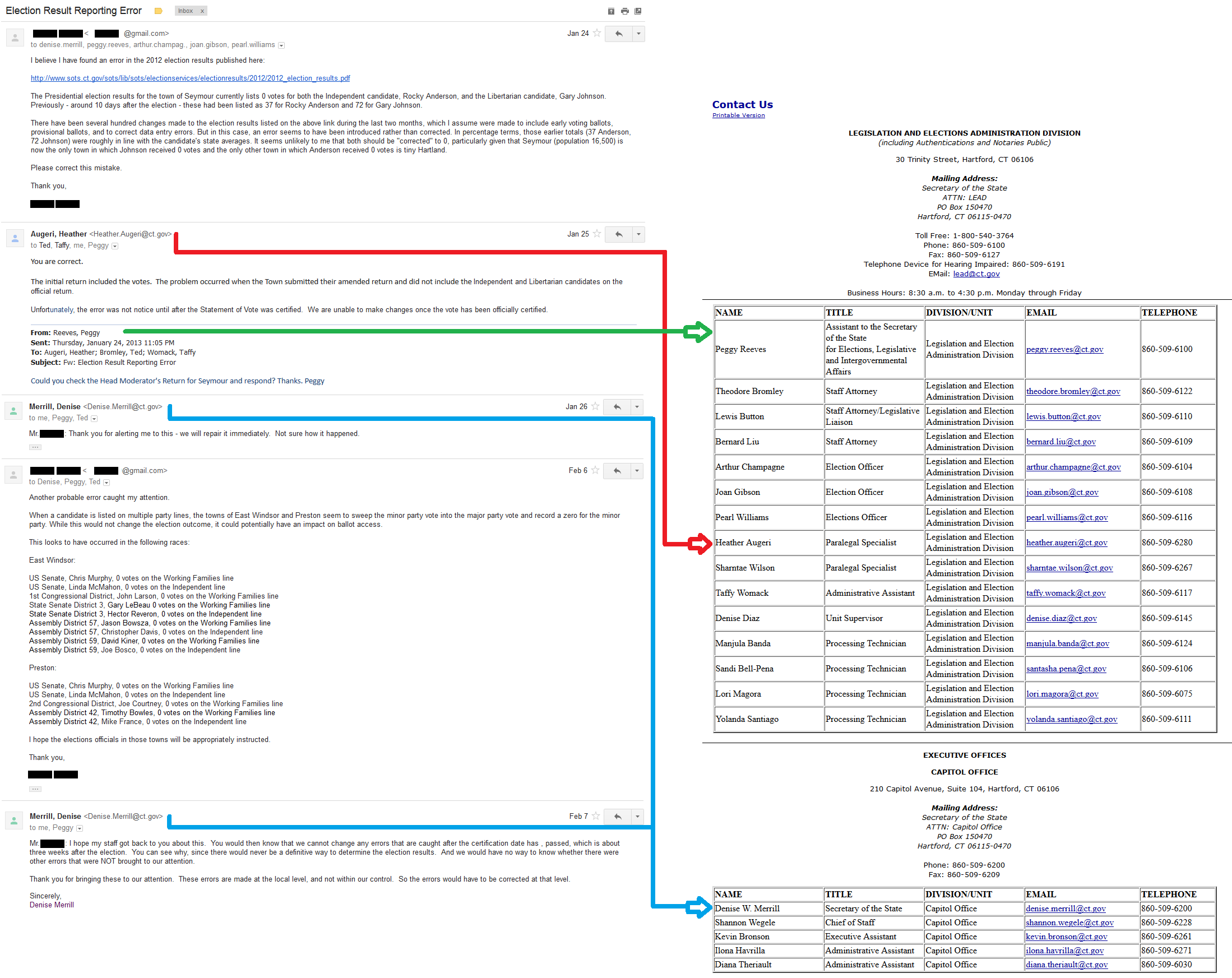 Connecticut Secretary of the State 2012 election results error acknowledgment and contacts